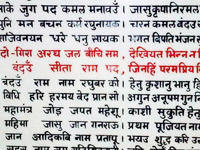 Verses from the Balakanda of Ramcharitmanas at the Manas Mandir, Chitrakuta, Madhya Pradesh, India.